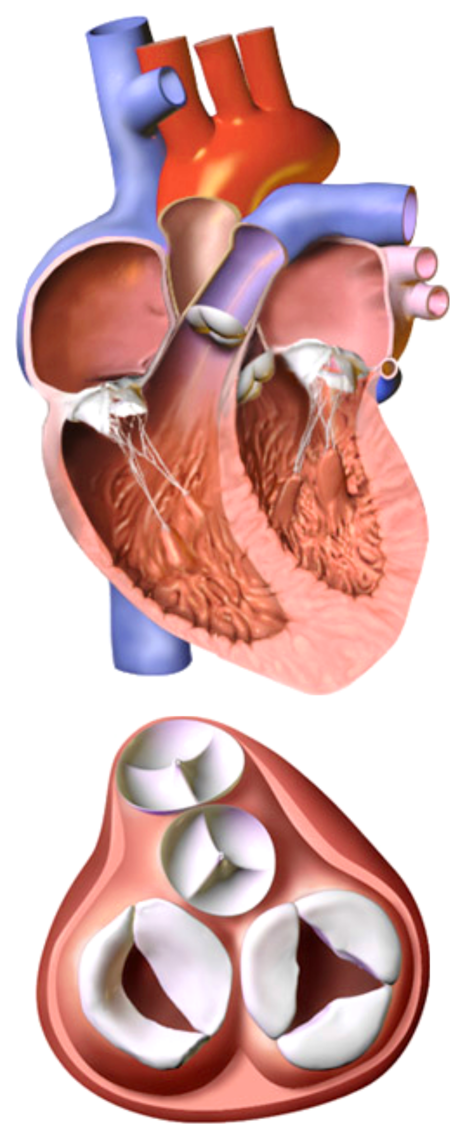 Heart valves. There are two types of valves located in the heart: the atrioventricular valves (tricuspid and mitral) and the semilunar valves (pulmonary and aortic).